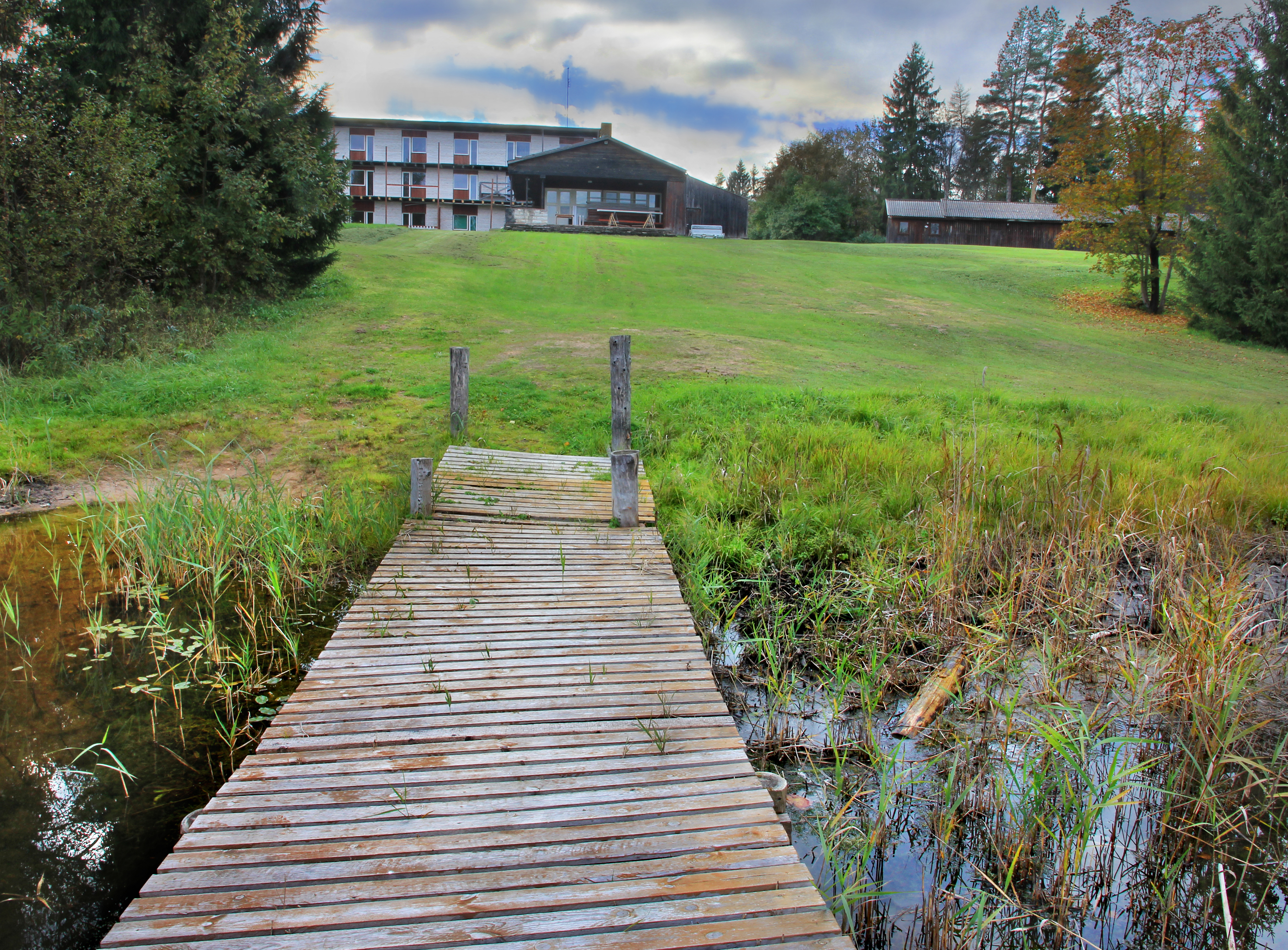 Lake Niinsaare, Kurtna Landscape Reserve